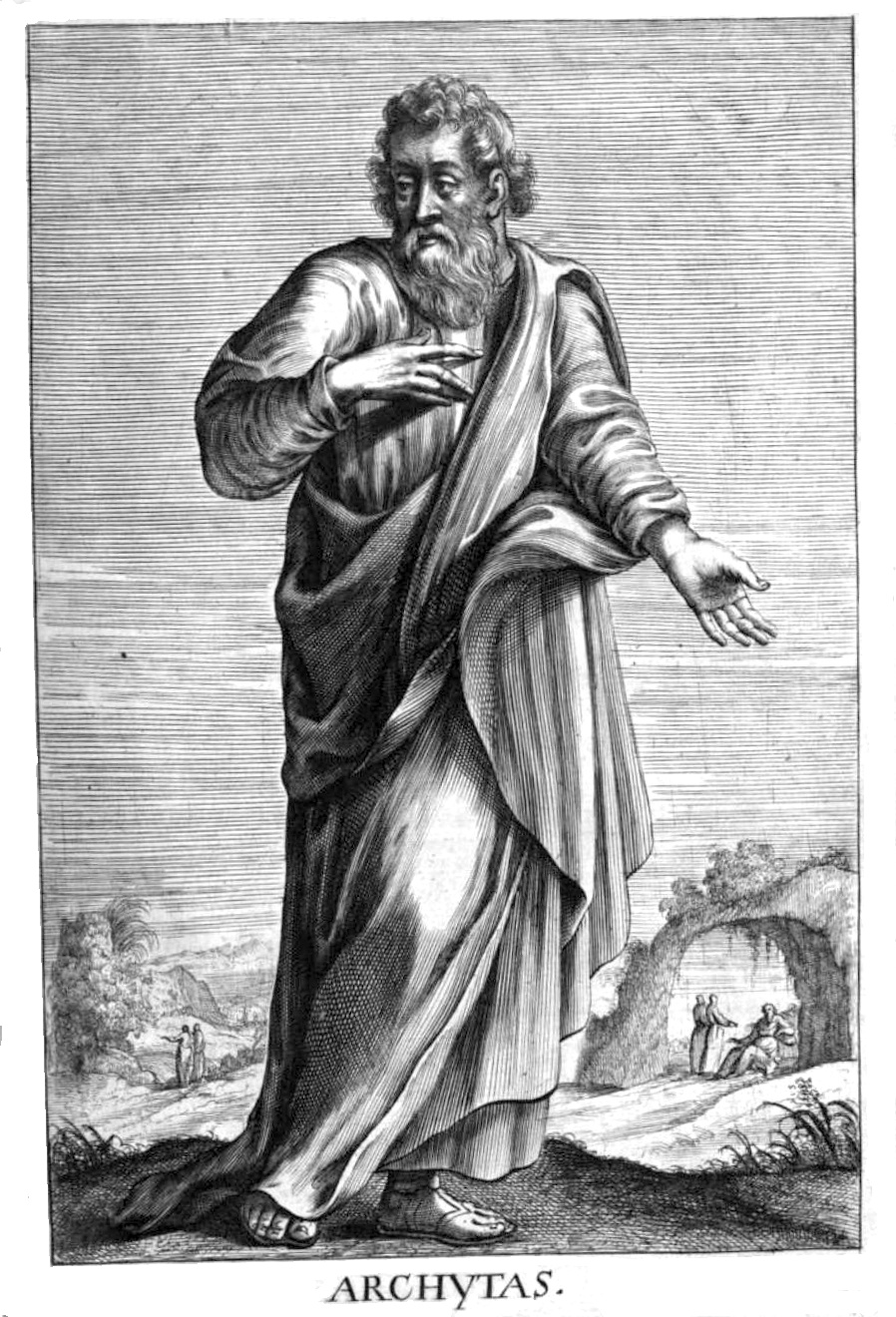 Archytas, ancient Greek philosopher. From Thomas Stanley, (1655), The history of philosophy: containing the lives, opinions, actions and Discourses of the Philosophers of every Sect, illustrated with effigies of divers of them.